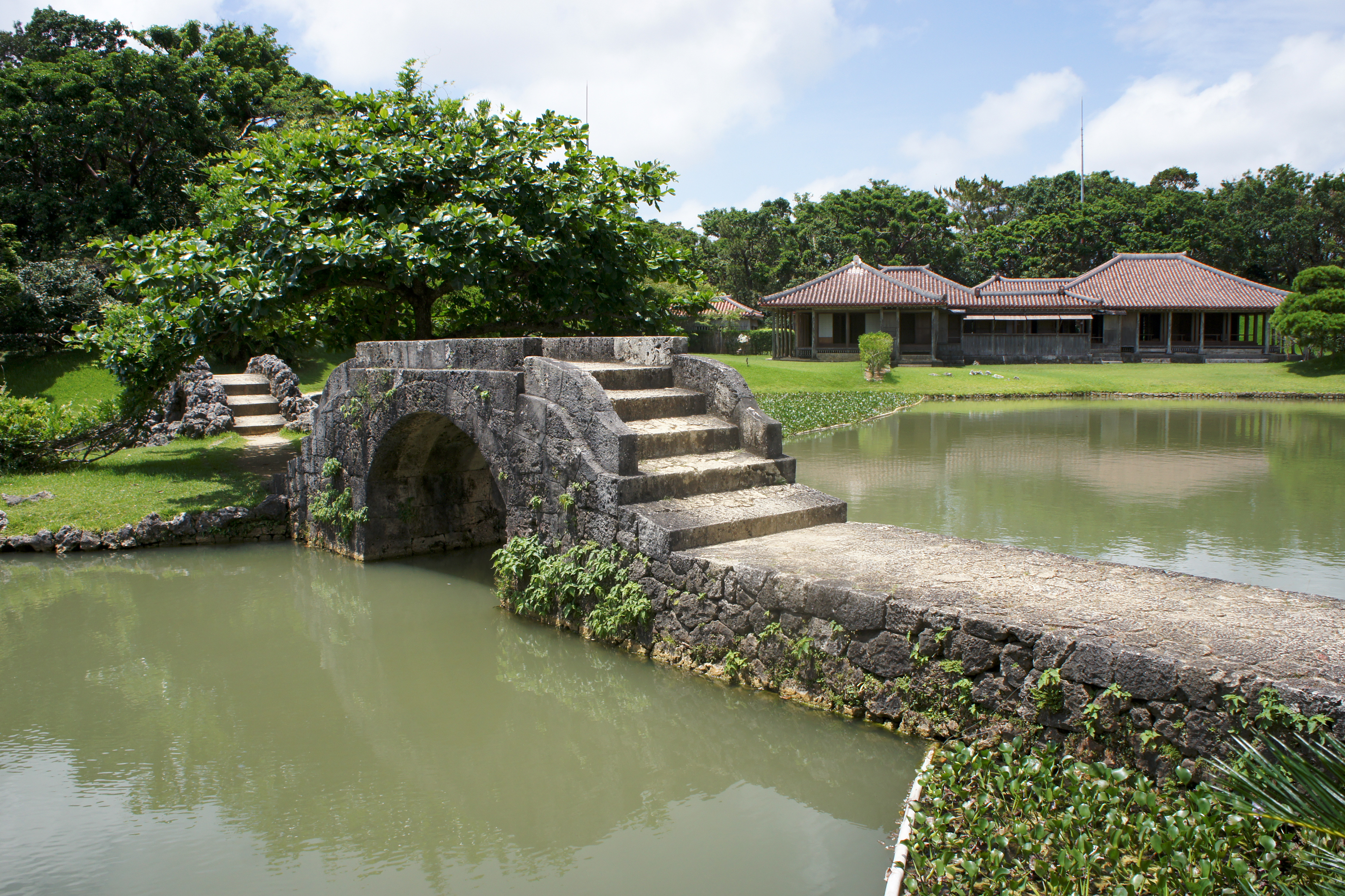 Shikinaen in Naha, Okinawa prefecture, Japan It was registered as part of the UNESCO World Heritage Site "Gusuku Sites and Related Properties of the Kingdom of Ryukyu".